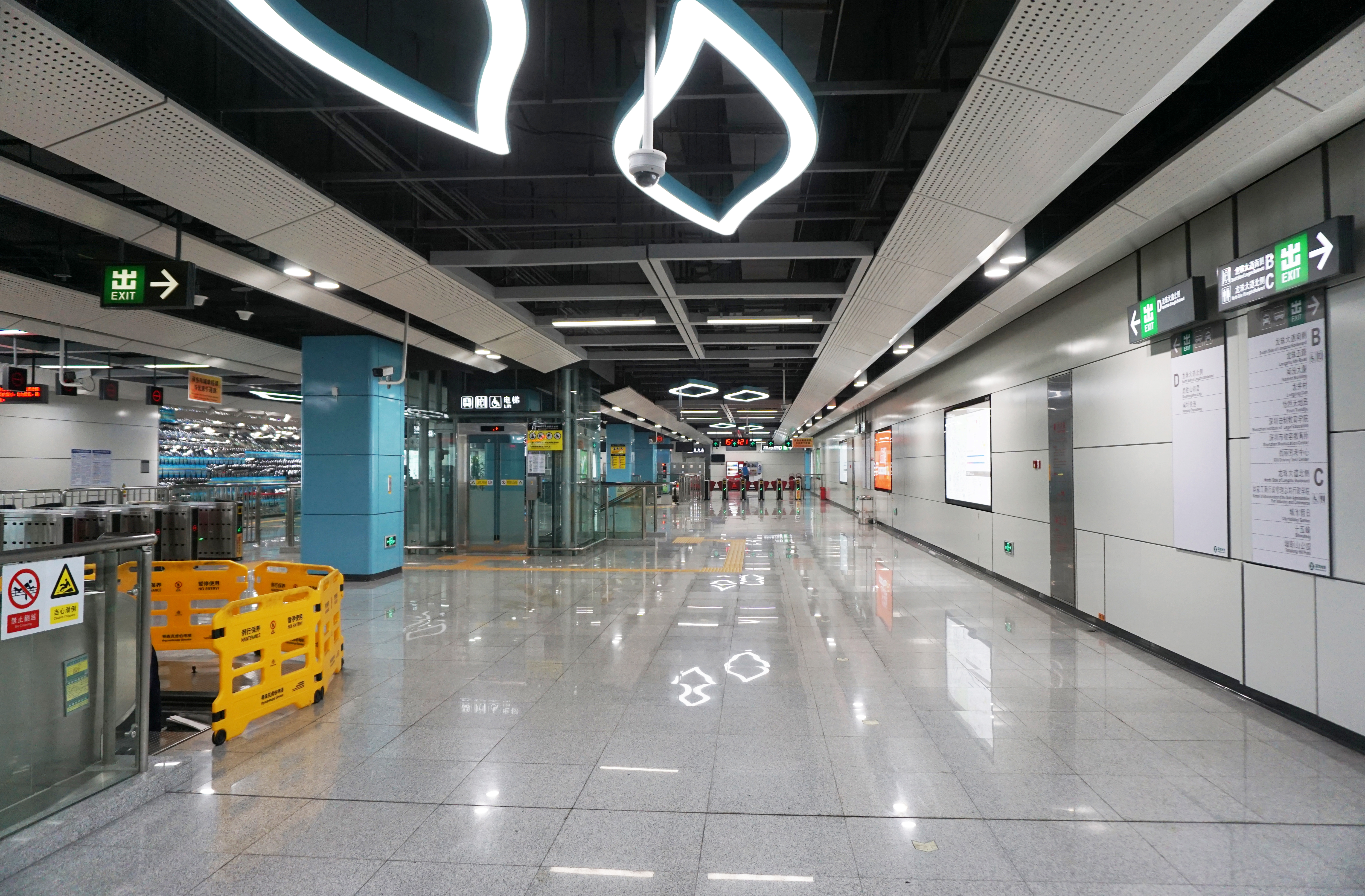 Longjing Station in Nanshan District, Shenzhen.